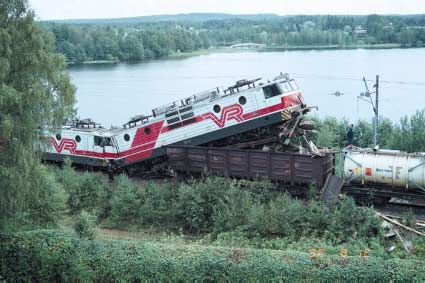 Trains colliding at Suonenjoki, Finland, on 12 August 1998. The locomotive of the freight train rose high up in the air while two cars pushed thereunder. Both trains remained on the railway bed and mostly on the track.